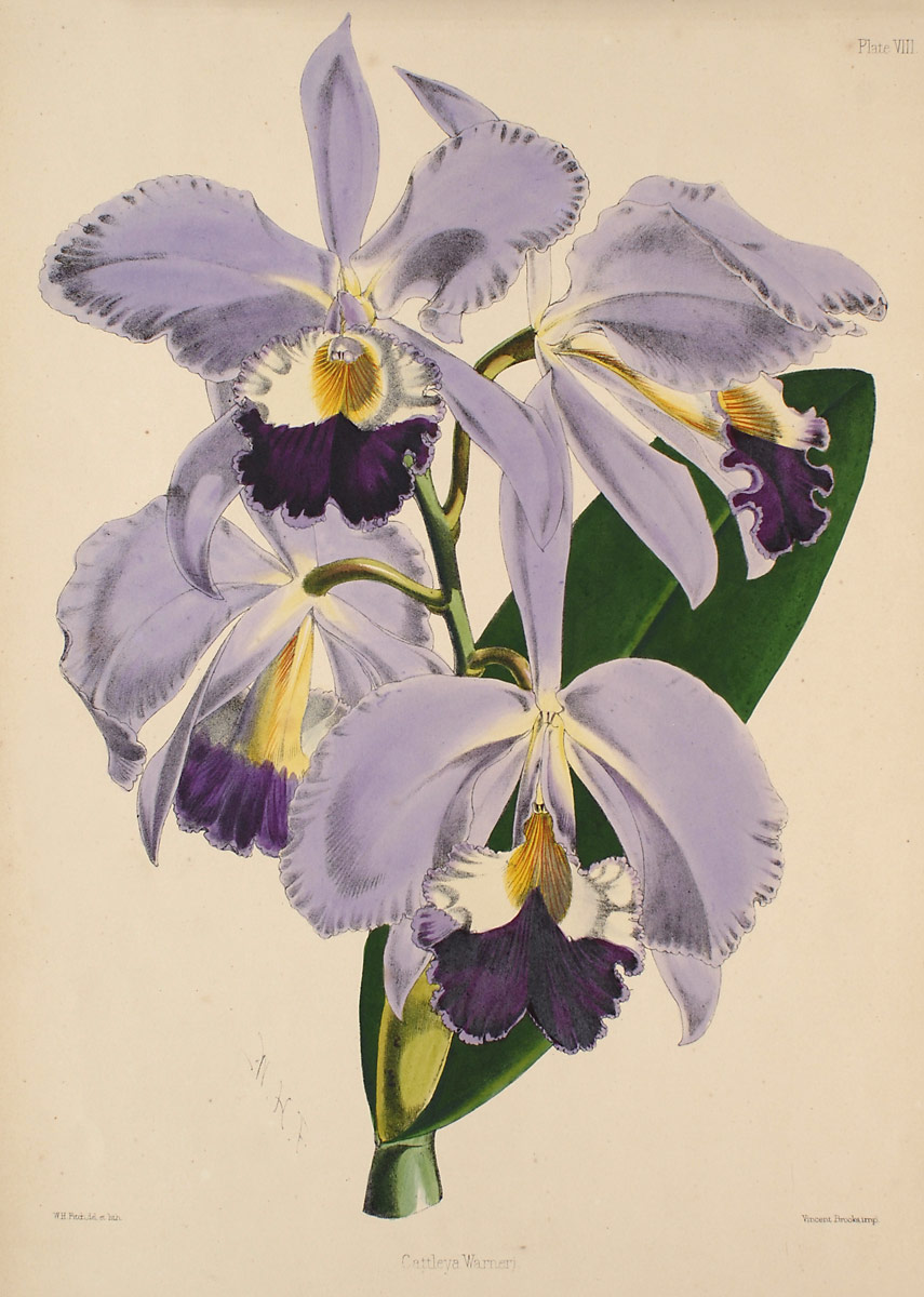 Illustration of Cattleya warneri